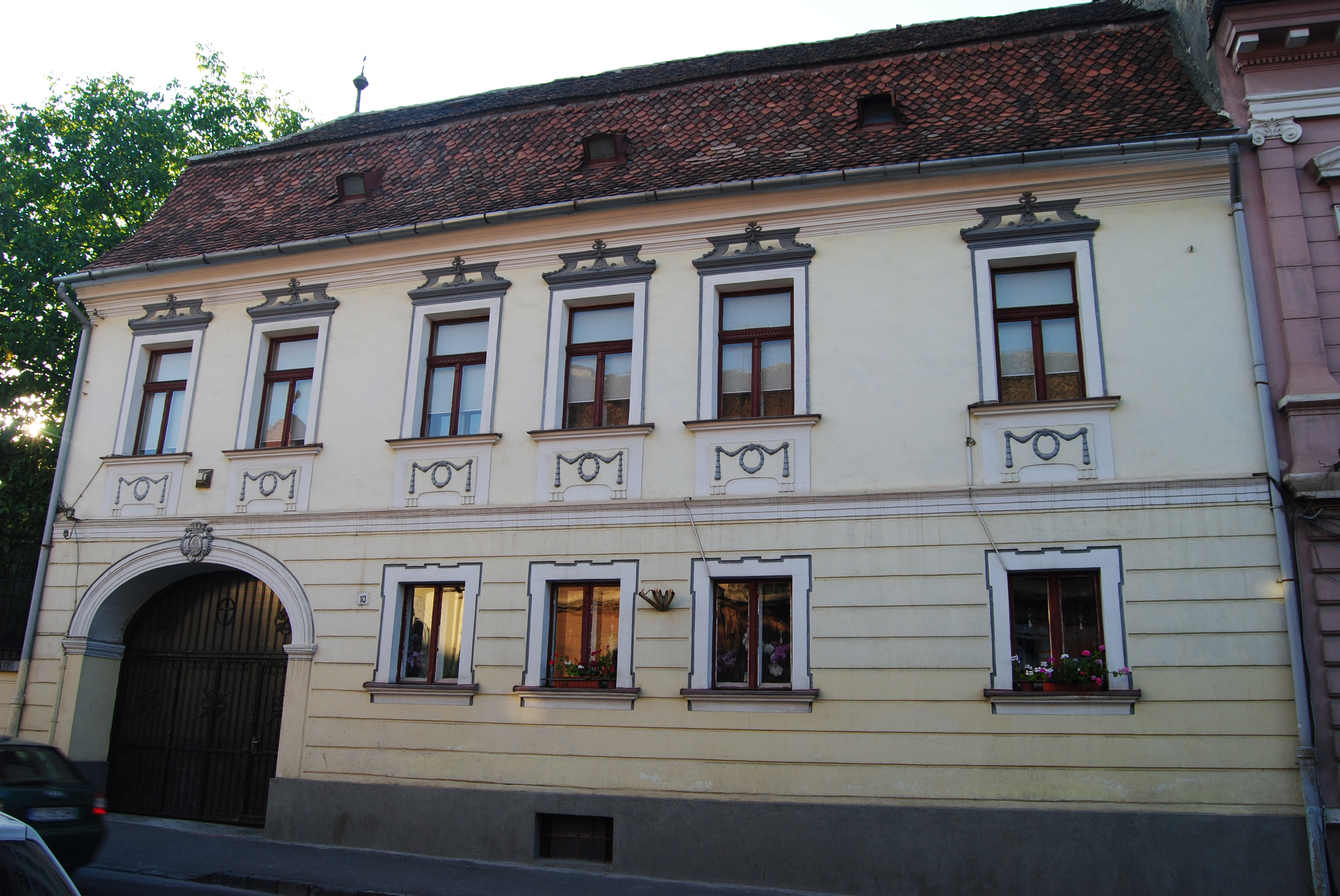 House, 10 St. Ct. Brâncoveanu, Brașov, Romania